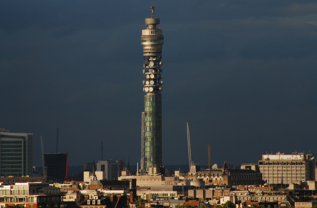 BT tower at full zoom from Queens Tower. Also available on Gallery.